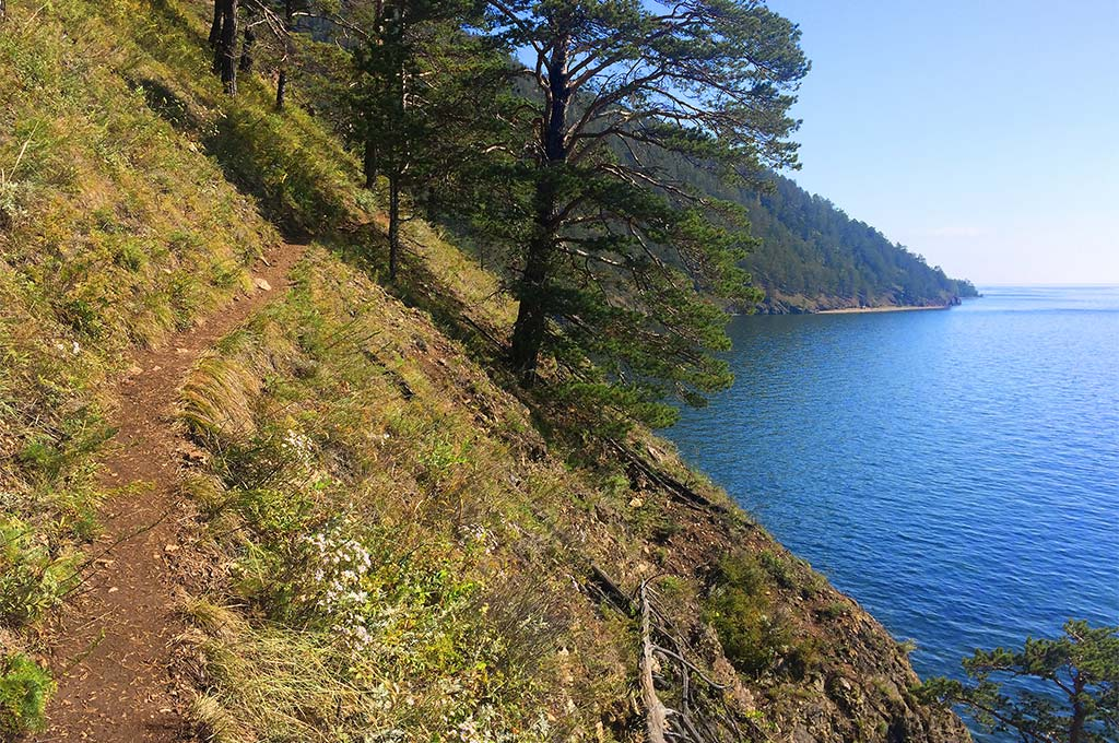 Great Baikal Trail, which goes from Listvyanka to Bolshoye Golousnoye